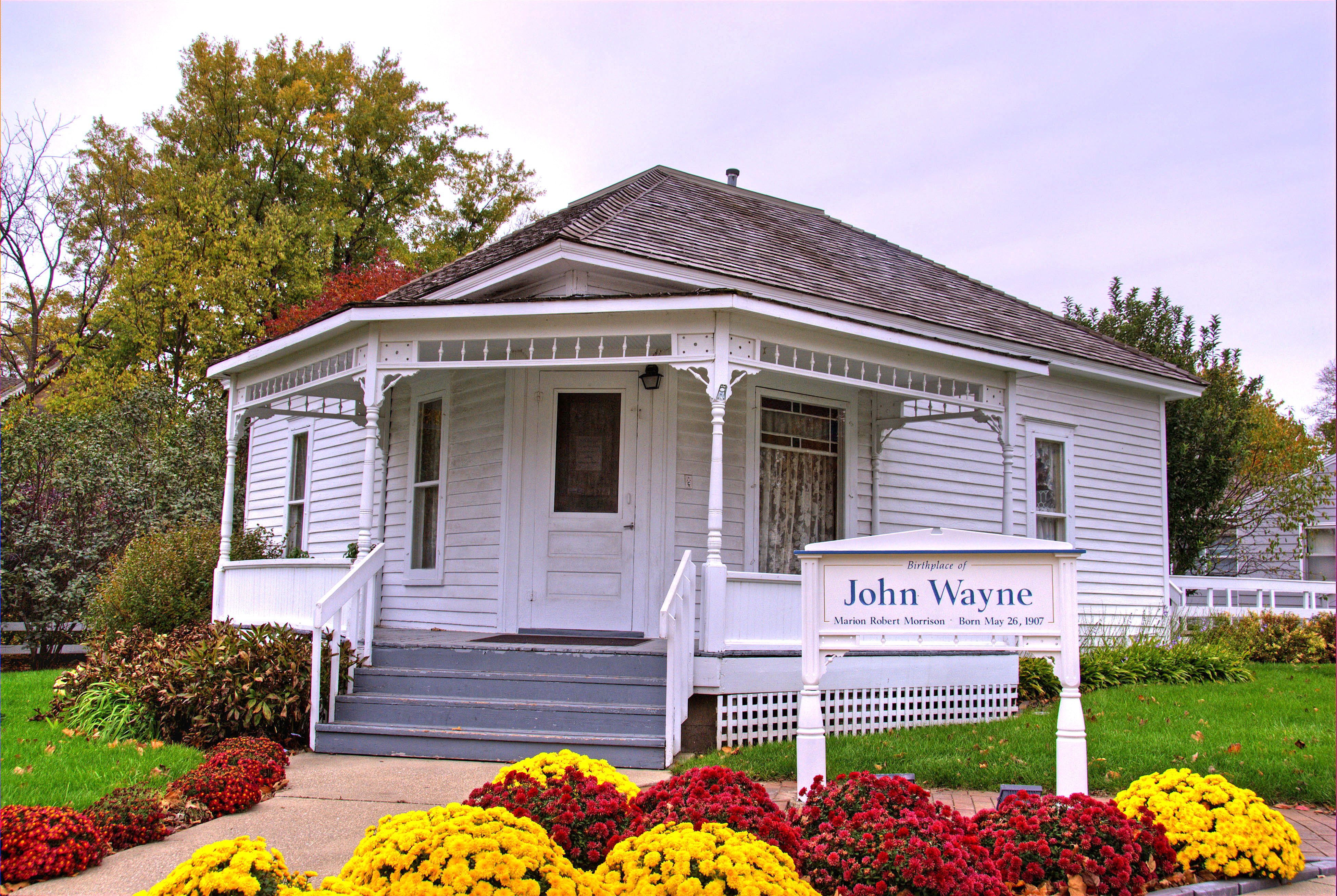 John Wayne was born as Marion Robert Morrison in Winterset, Iowa on May 26, 1907 in this house. Wayne's family moved to Palmdale, California, and then to Glendale, California in 1911.